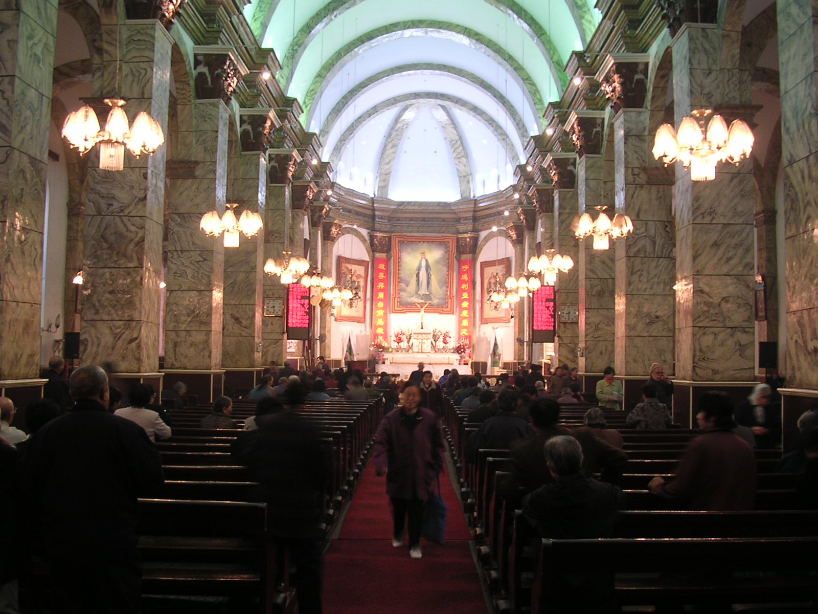 Interior of the Catholic Cathedral of the Immaculate Conception (also called Nantang).